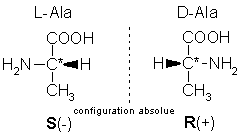 Transferred from fr.wikipedia to Commons. The original description page was here. All following user names refer to fr.wikipedia. l'acide aminé alanine (Ala) (stéréo-isomères D et L) C'est moi qui l'ai faite cette image Bionet 12 avr 2005 à 21:43 (CEST)